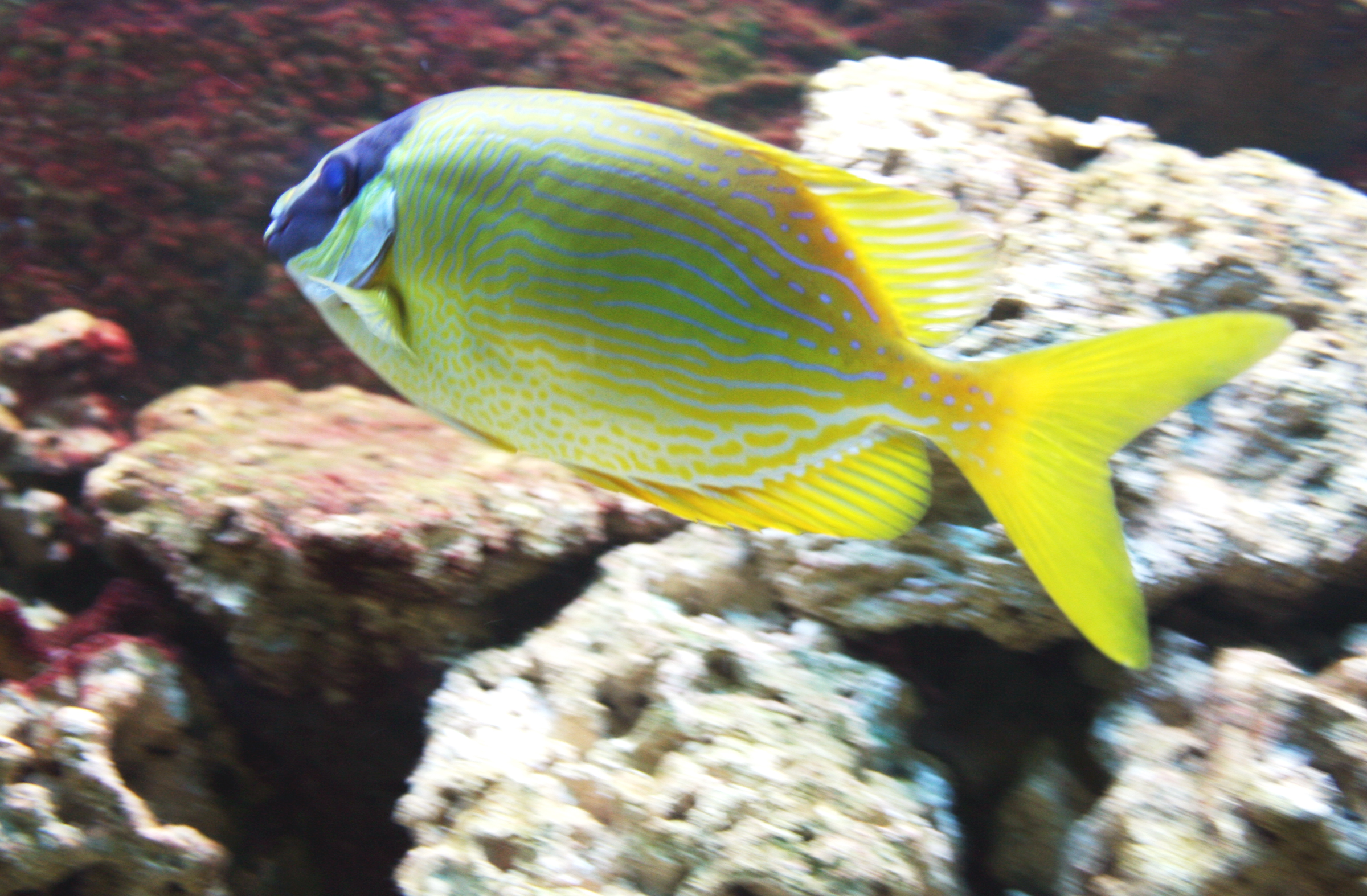 Fish Siganus puellus, Siganus puellus in Prague sea aquarium, Czech Republic